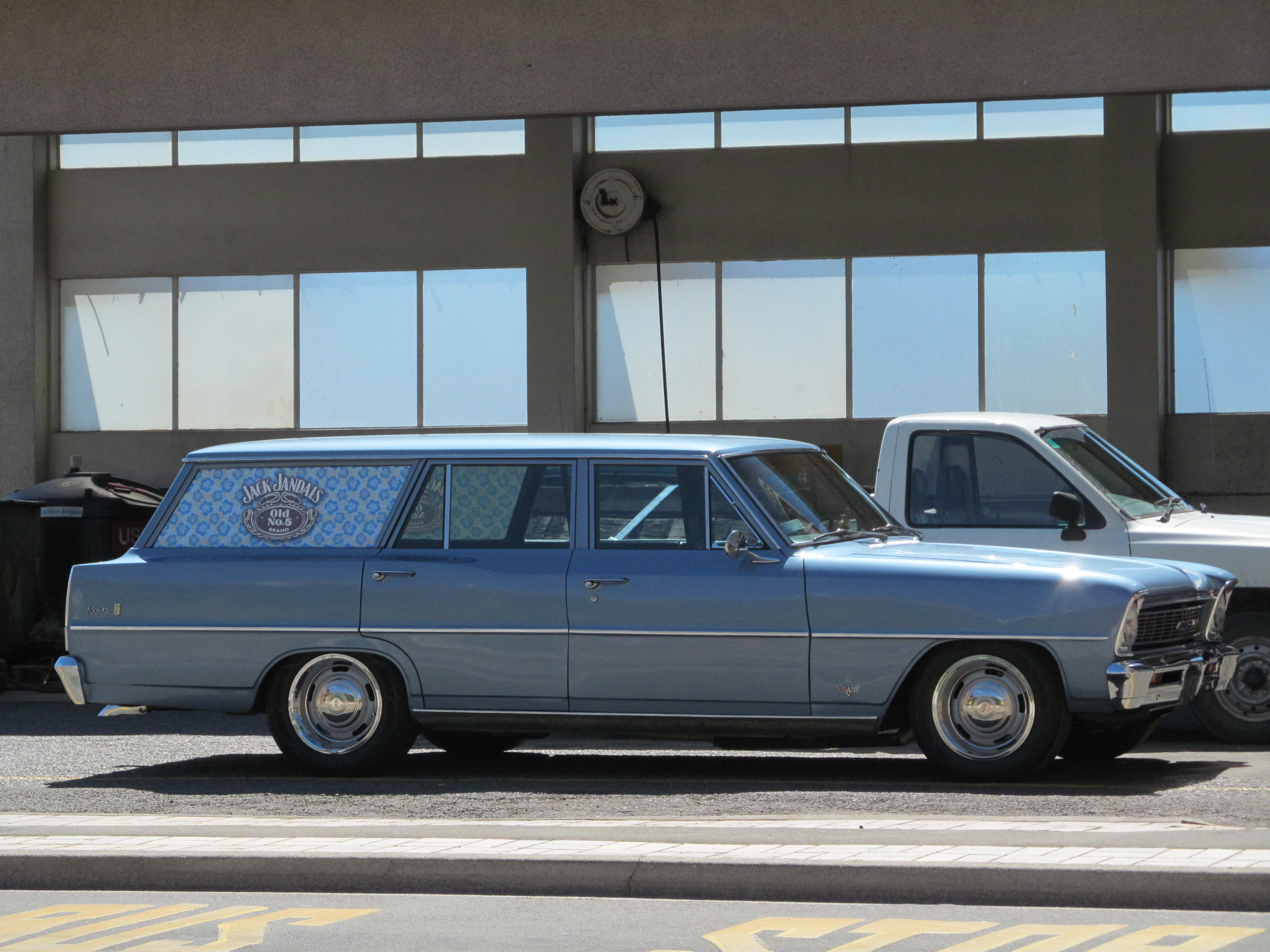 I can't remember the license plate unfortunately. I think it might be a 1966 model. 'Jack Jandals' is a new one on me!